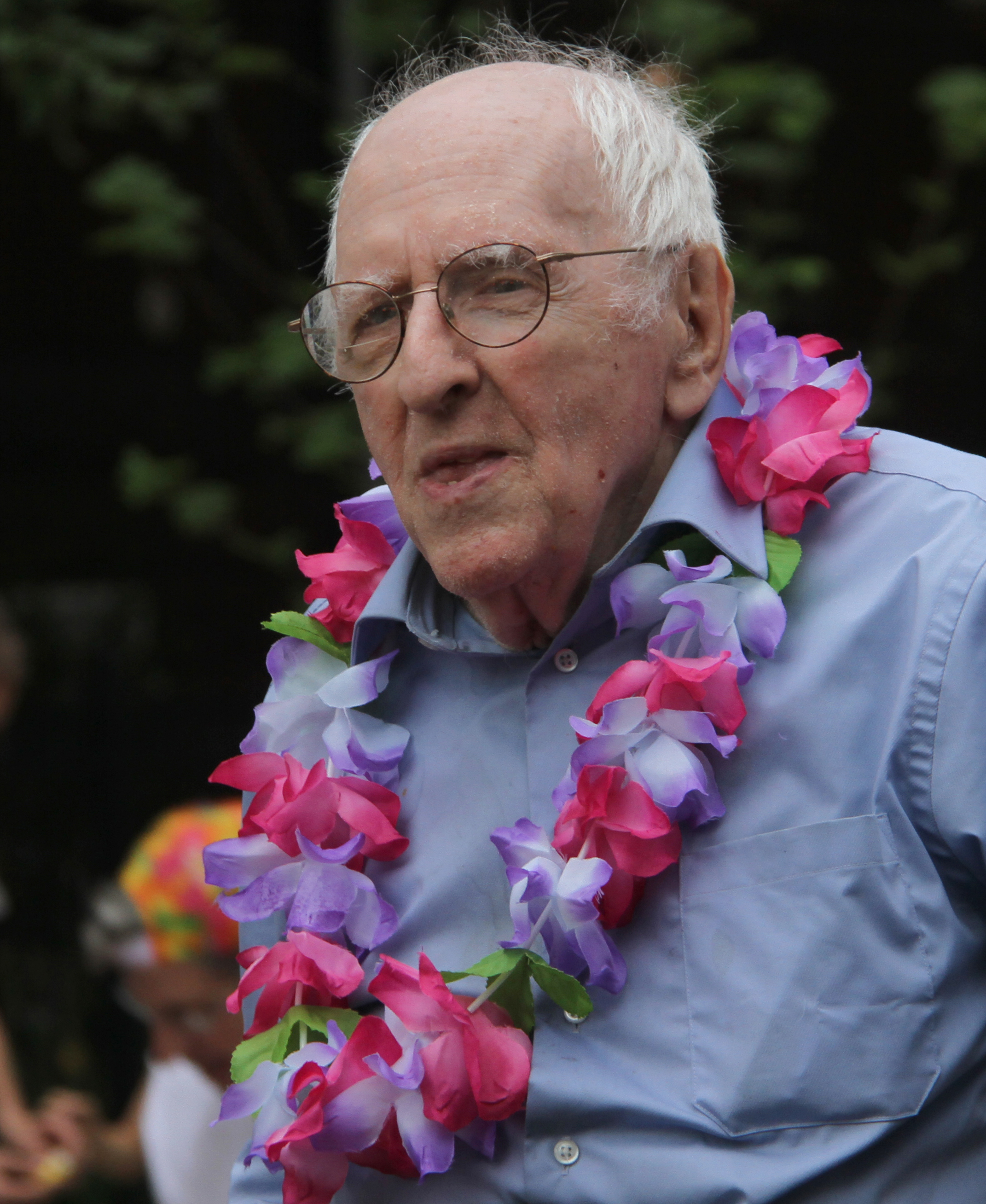 Frank Kameny attending Pride on June 12, 2010